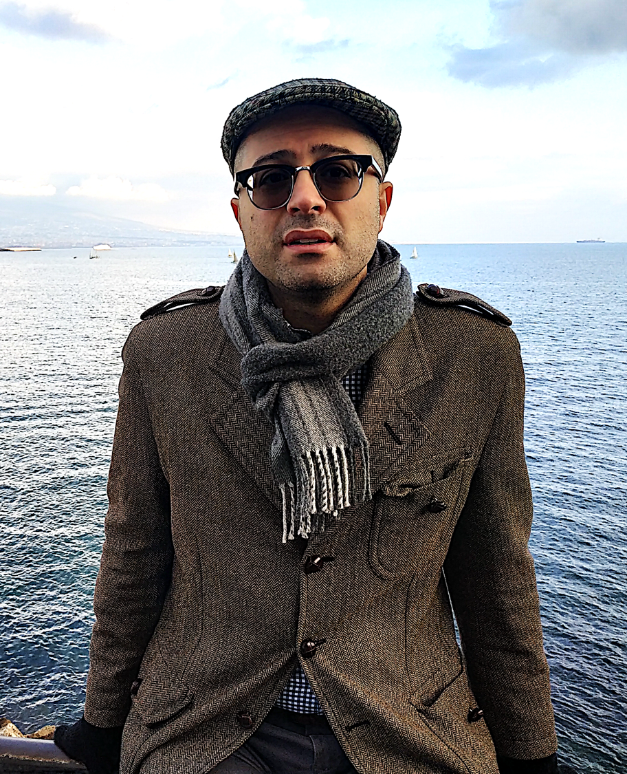 Harpsichordist Mahan Esfahani in Naples